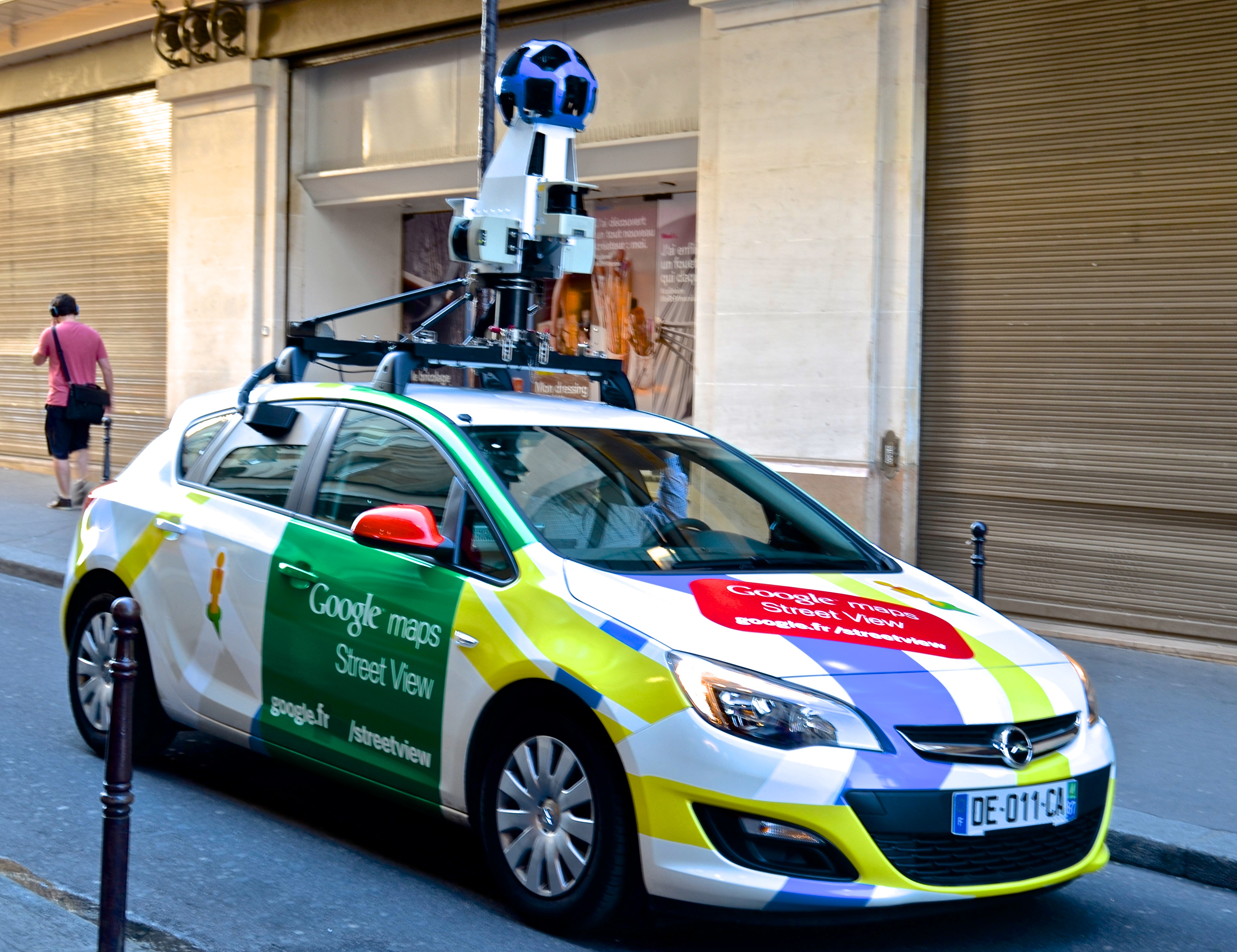 Google maps car, Paris.